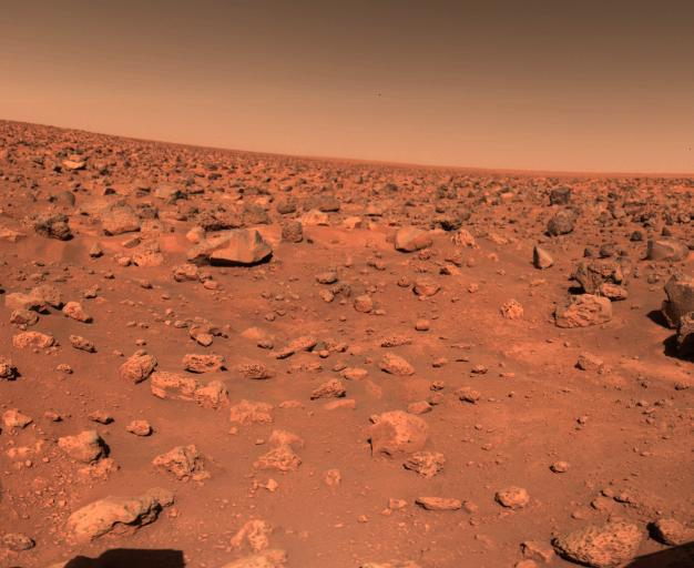 The first color picture taken by Viking 2 on the Martian surface shows a rocky reddish surface much like that seen by Viking 1 more than 4000 miles away. The planned location for the collection of soil for on-board analysis is seen in the lower part of the photo. The Lander s camera #2 is looking approximately to the northeast. The right edge of the picture is due east of the spacecraft. The sun is behind the camera in the Martian afternoon. As at Chryse Planitia where Viking 1 landed in July, the sky over Utopia is pink. Colors of the rocks and soil also are almost identical at the two landing sites. Because the spacecraft is tilted about 8 degrees to the west, the horizon appears tilted. In fact, it is nearly level.